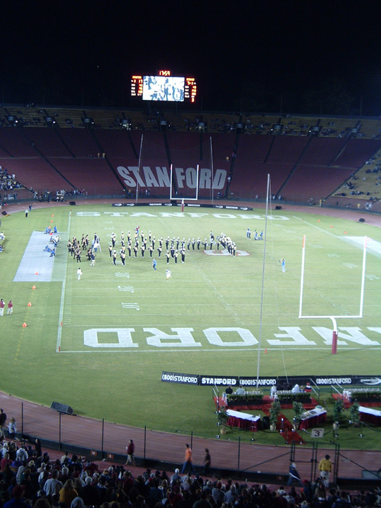 view from the free ticket section